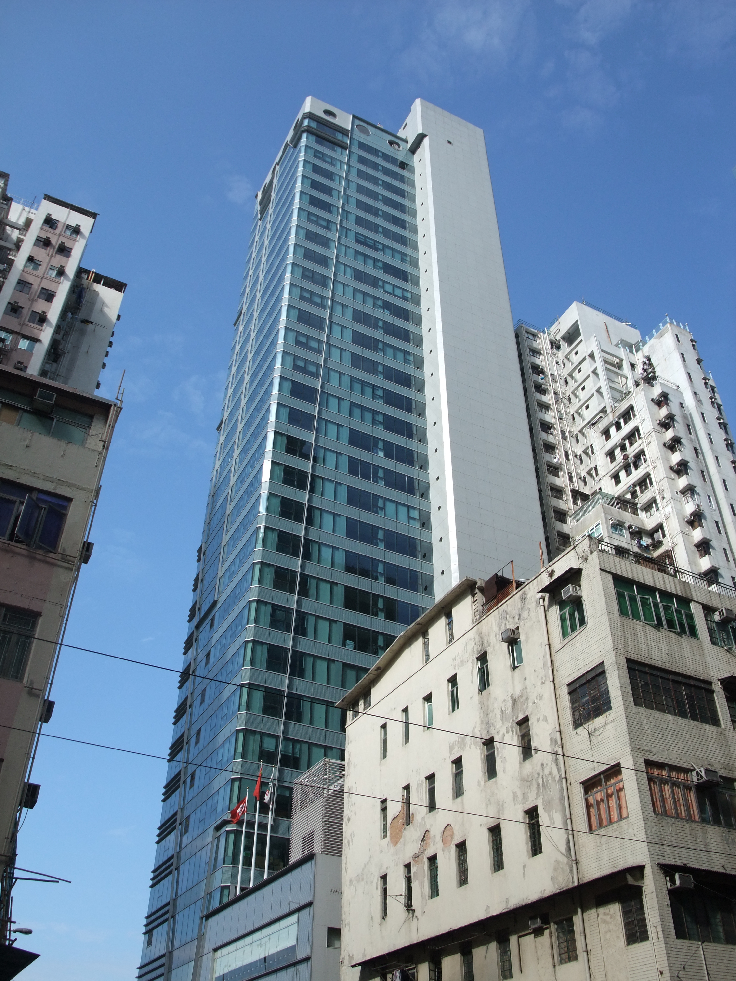 Photo of Courtyard By Marriott Hong Kong